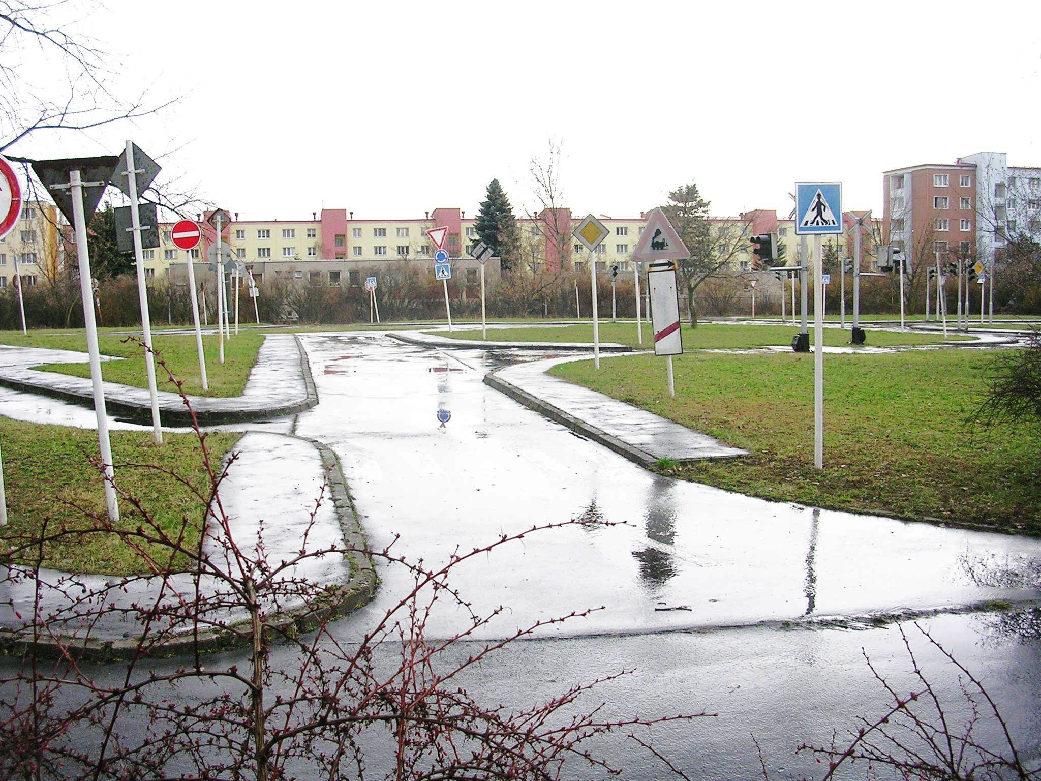 Traffic playground for education of children. The Czech Republic, Praha, Zahradní Město.